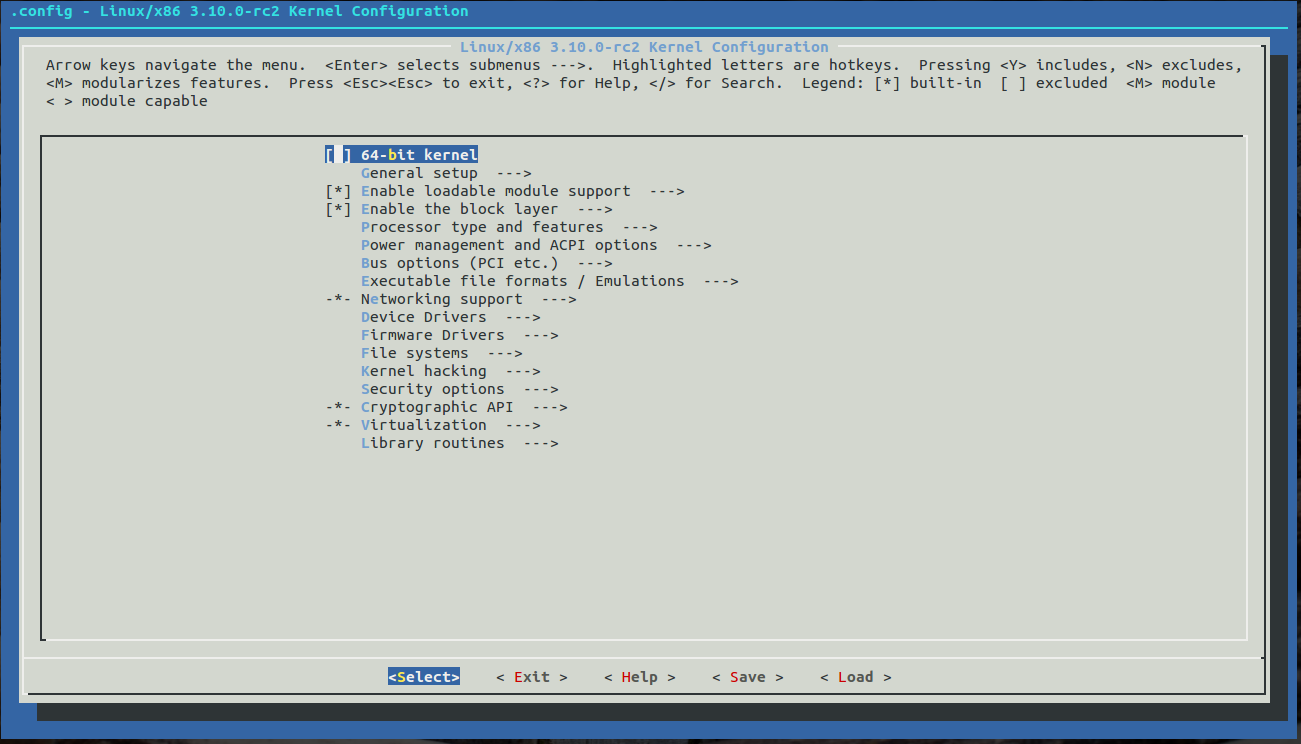 Linux_x86 3.10.0-rc2 Kernel Configuration